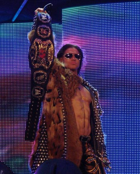 John Morrison as the World Tag Team Champion